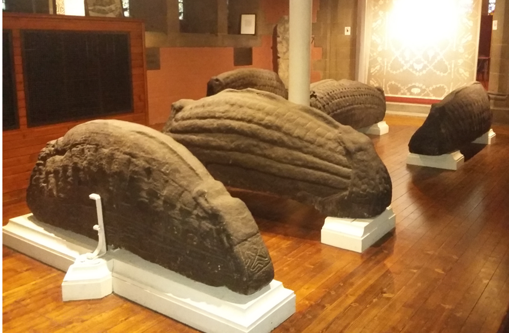 Hogbacks in current display at Govan Old Parish church